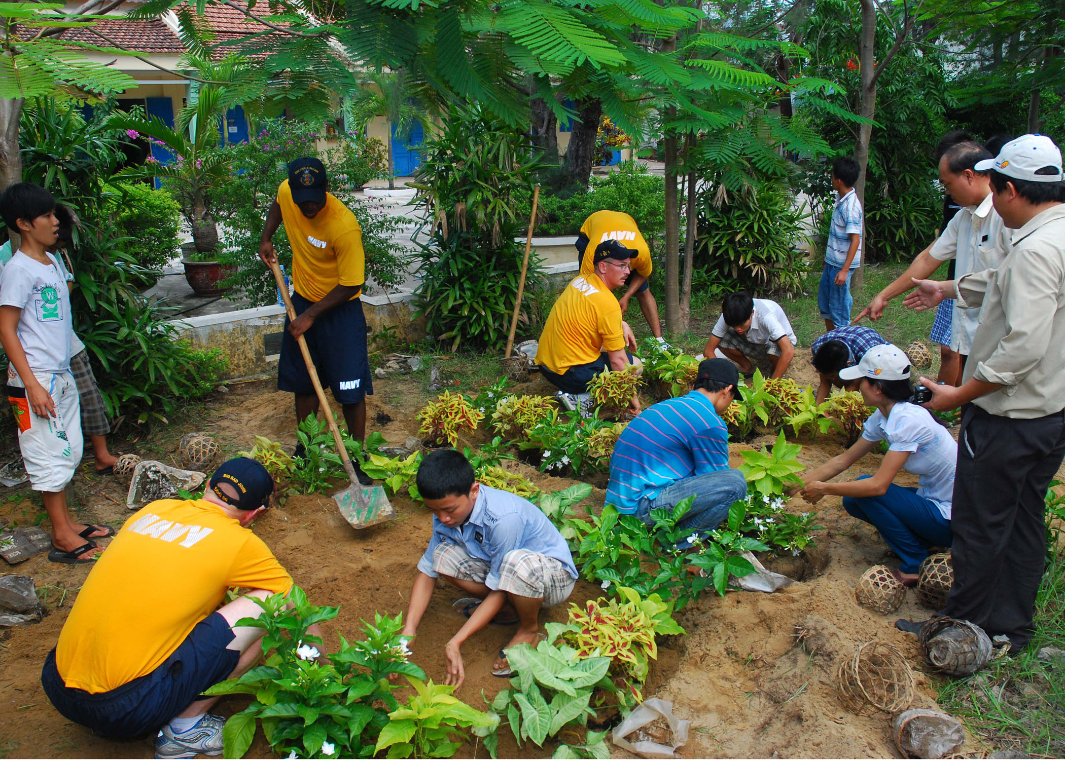 DA NANG, Vietnam (Aug. 13, 2010) Sailors assigned to the guided-missile destroyer USS John S. McCain (DDG 56) participate in a community plant schrubs with local children during a community service project at the Village of Hope orphanage in Vietnam. McCain is on a scheduled port visit to commemorate the 15th anniversary of the normalization of diplomatic relations between Vietnam and the United States. (U.S. Navy photo by Mass Communication Specialist 2nd Class Jessica Bidwell/Released)